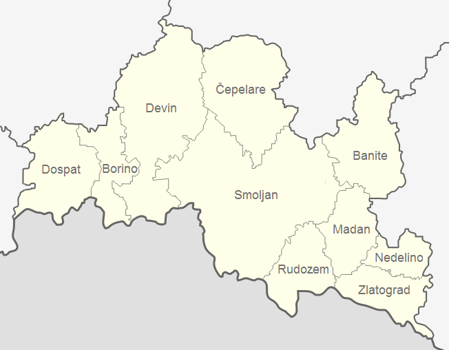 Croatian names on map of Smolyan District (Bulgaria)